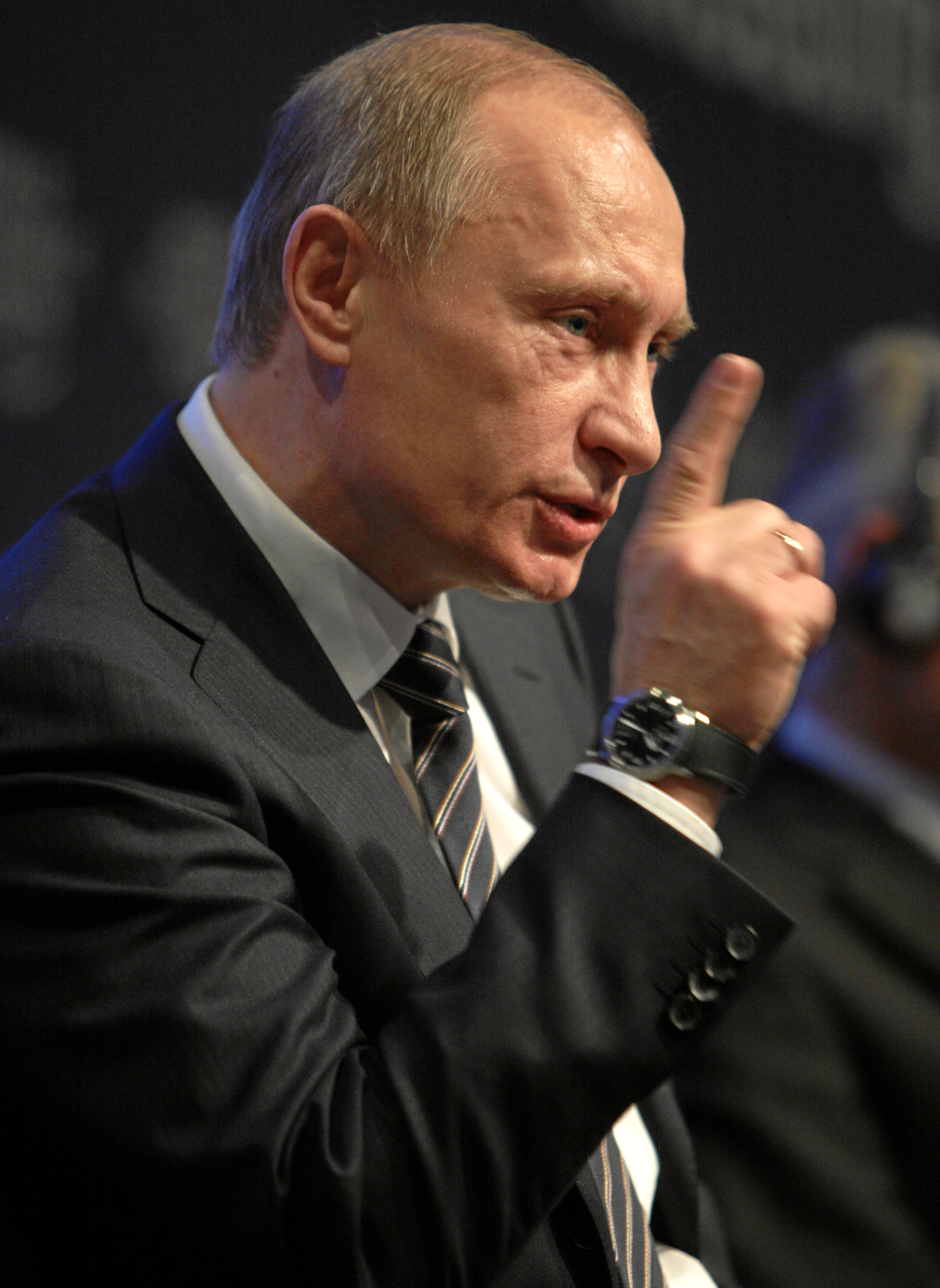 Vladimir Putin, Chairman of the Government, spoken at the World Economic Forum Annual Meeting in Davos Municipality, Graubünden Canton on January 29, 2009.